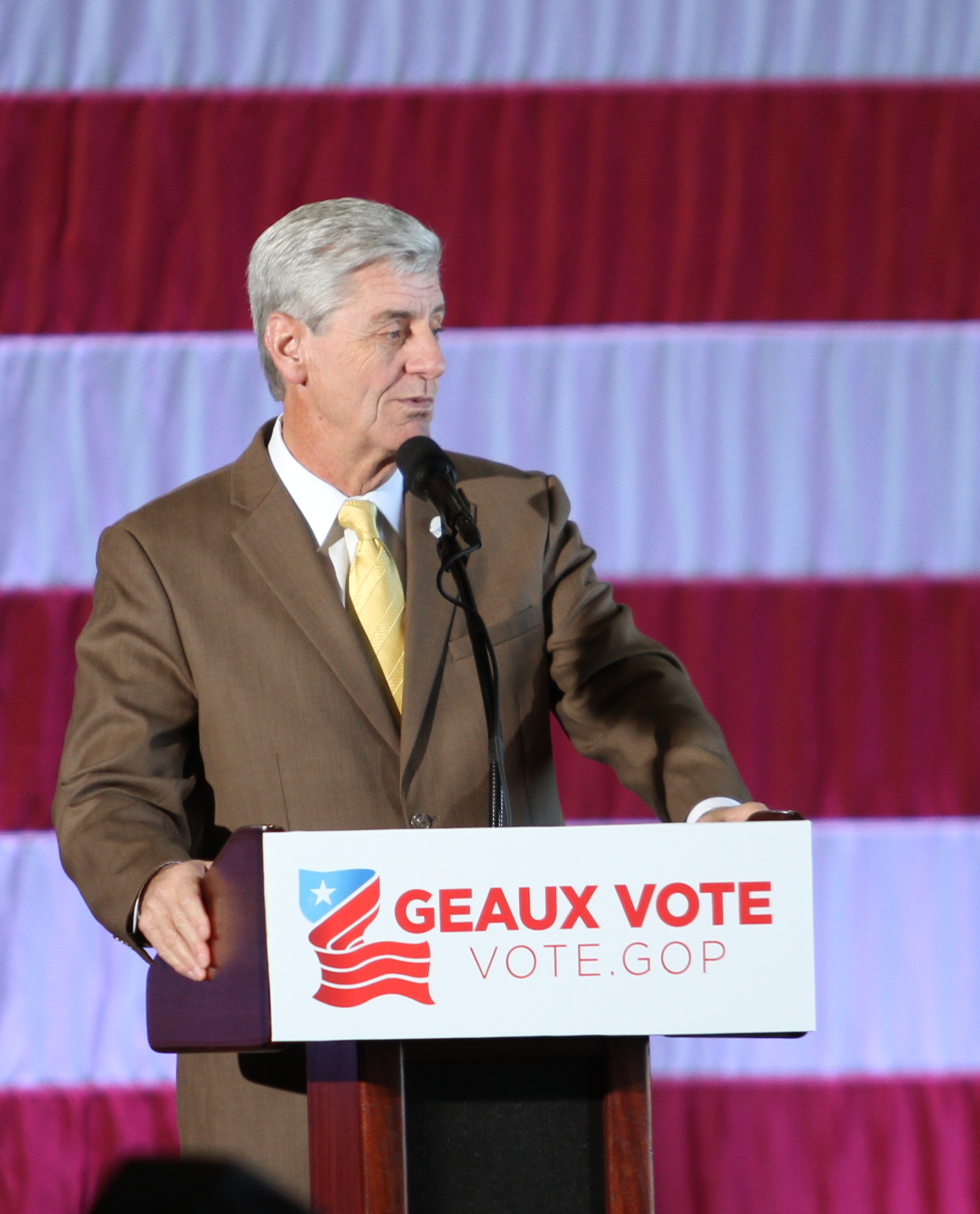 Phil Bryant, LAGOP Rally, December 9, 2016, Dow Hangar, Baton Rouge, Louisiana, Tammy Anthony Baker, Photographer